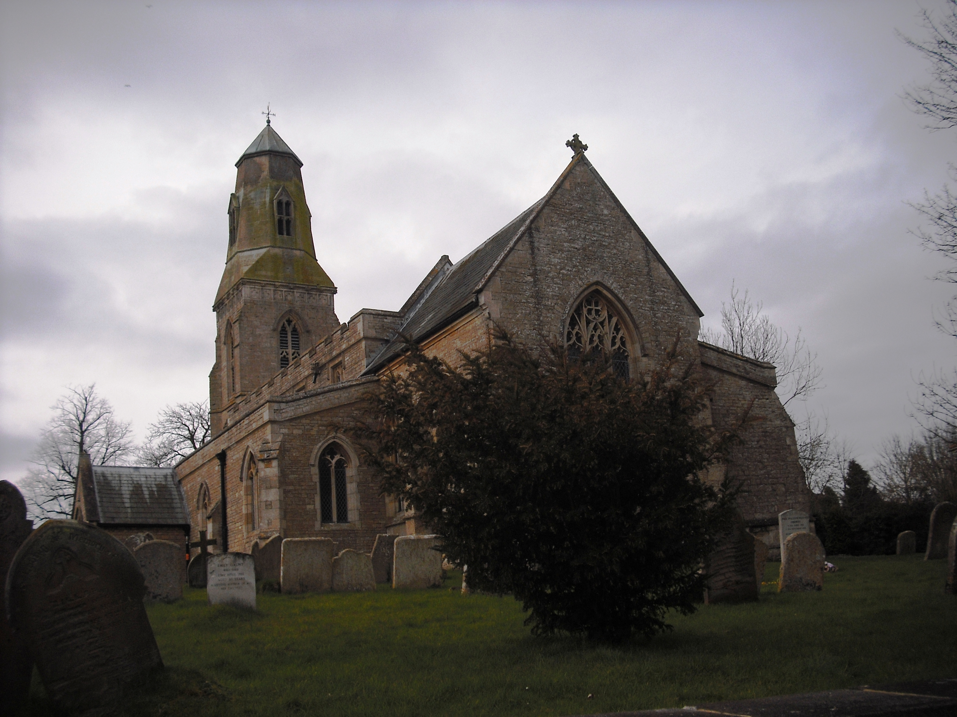 View of the parish church of St Lawrence, Bythorn from the east.